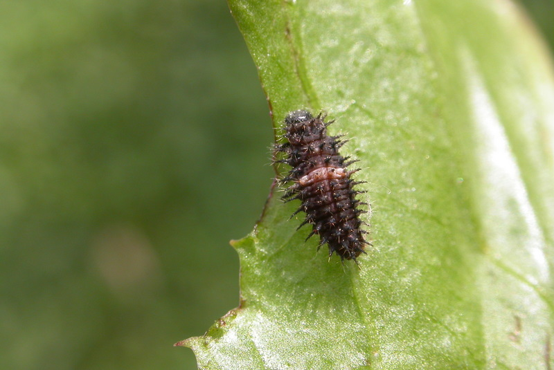 Larva of Chilocorus bipustulatus.